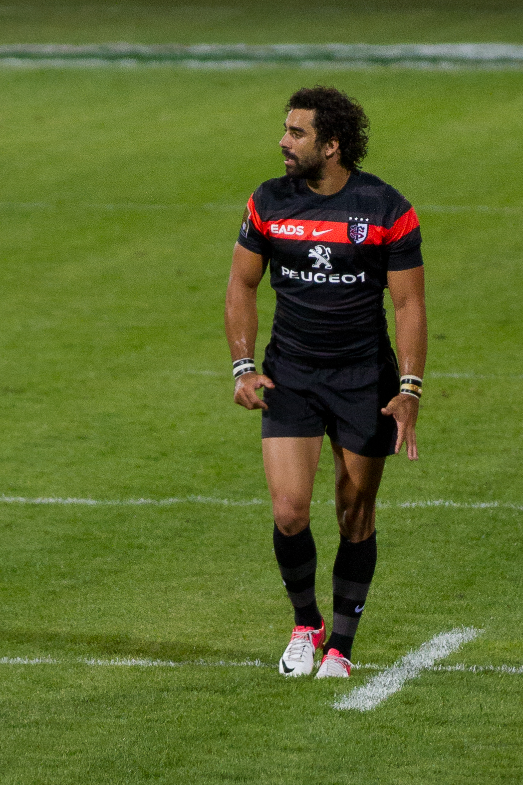 Top 14 — 17 August 2012, Stade Ernest-Wallon. Match between: Stade toulousain — Castres olympique